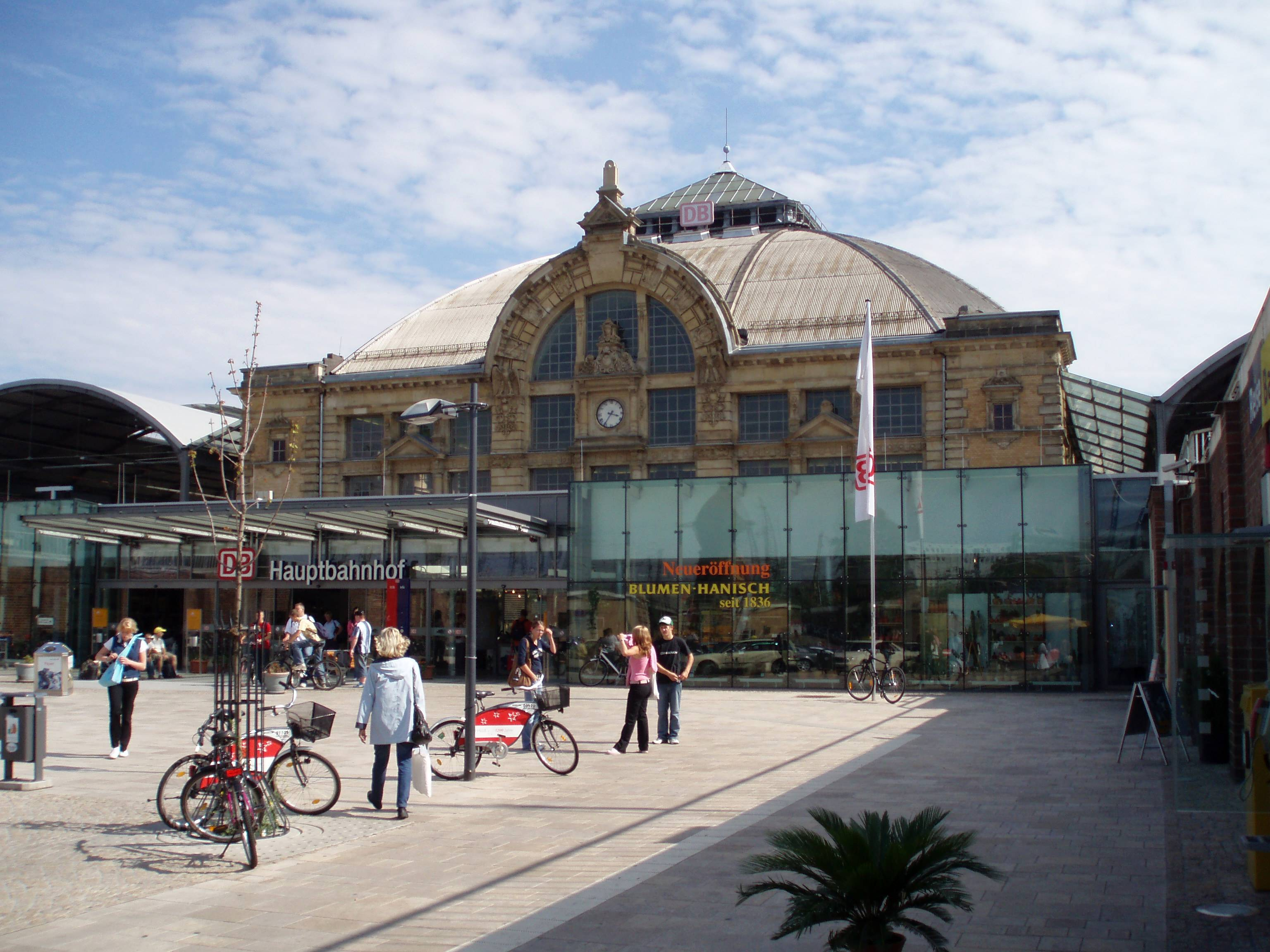 Main train station Halle (Saale)